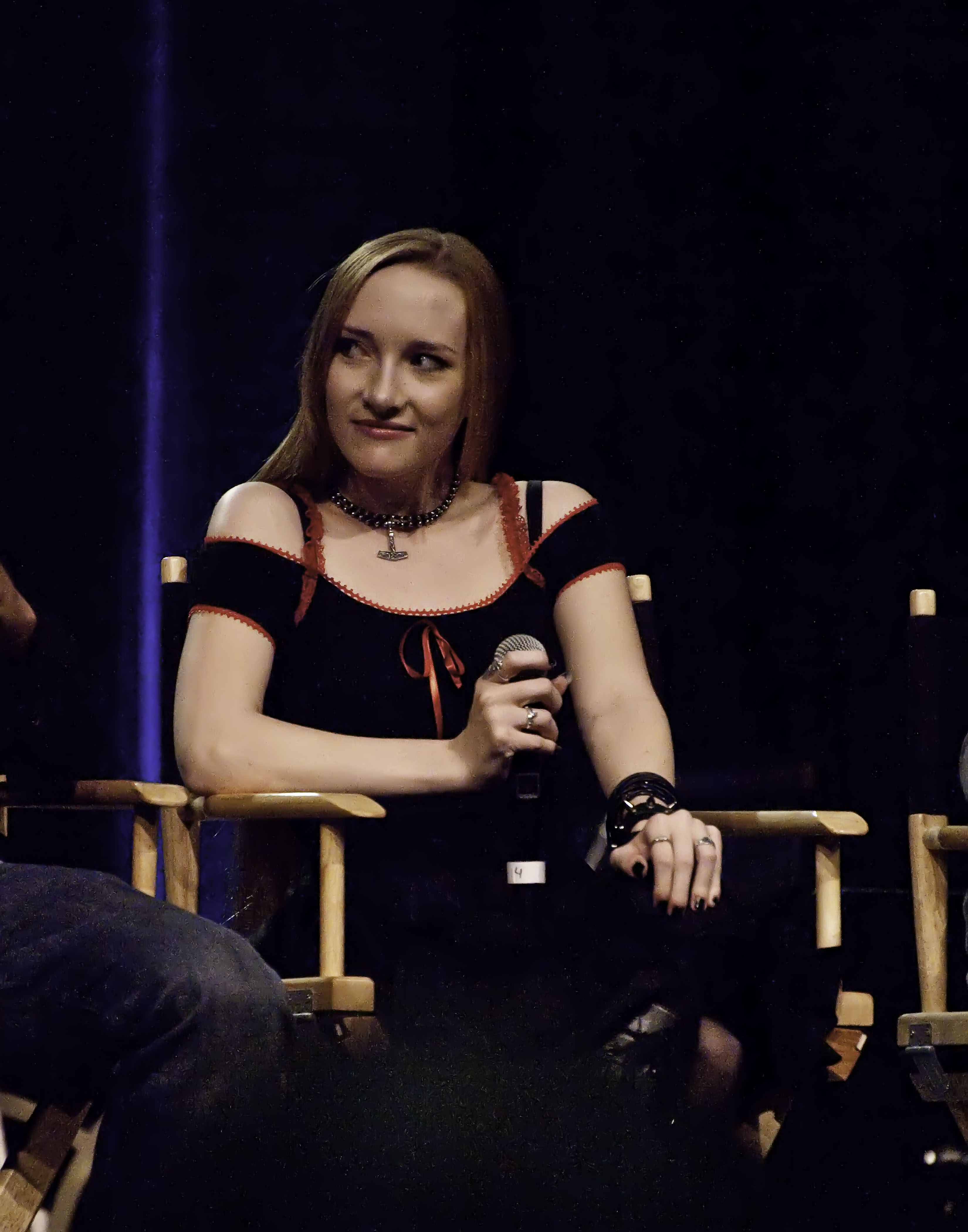 Scarlett Pomers at the Star Trek Convention, Las Vegas